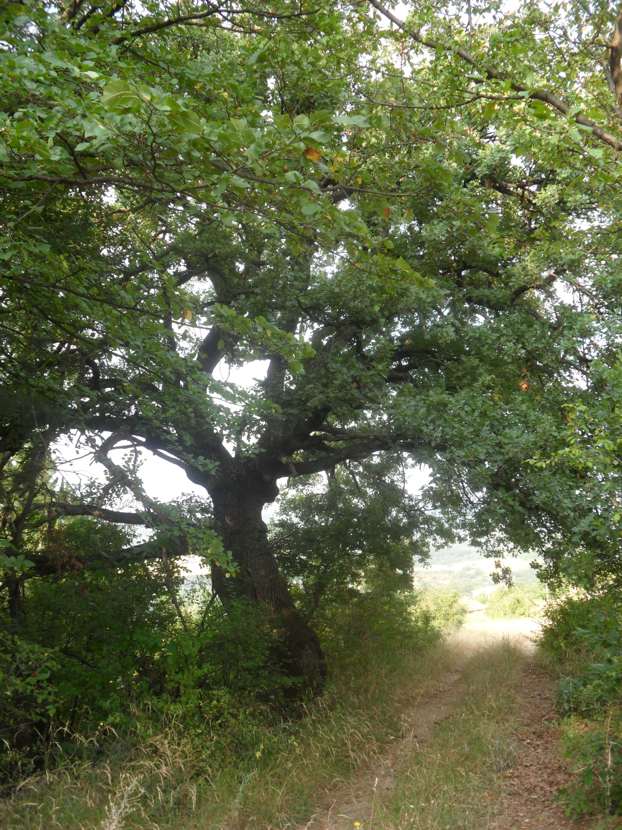 Here partisans had meetings months before The Liberation war